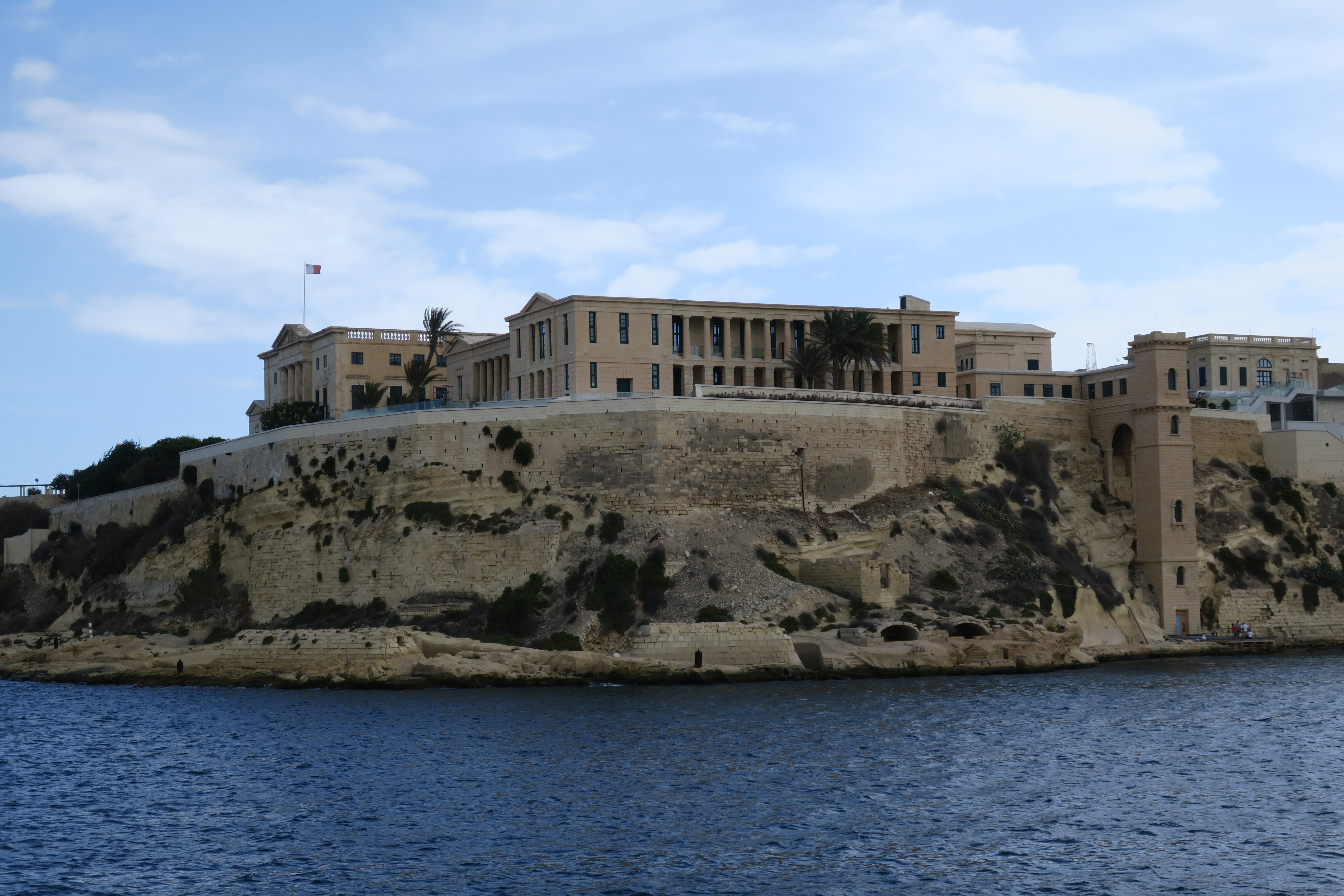 Former Bighi hospital complex as seen from the Grand Harbour.